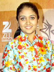 Rinku Rajguru and Anuja Mulay at the success party of Marathi film Sairat